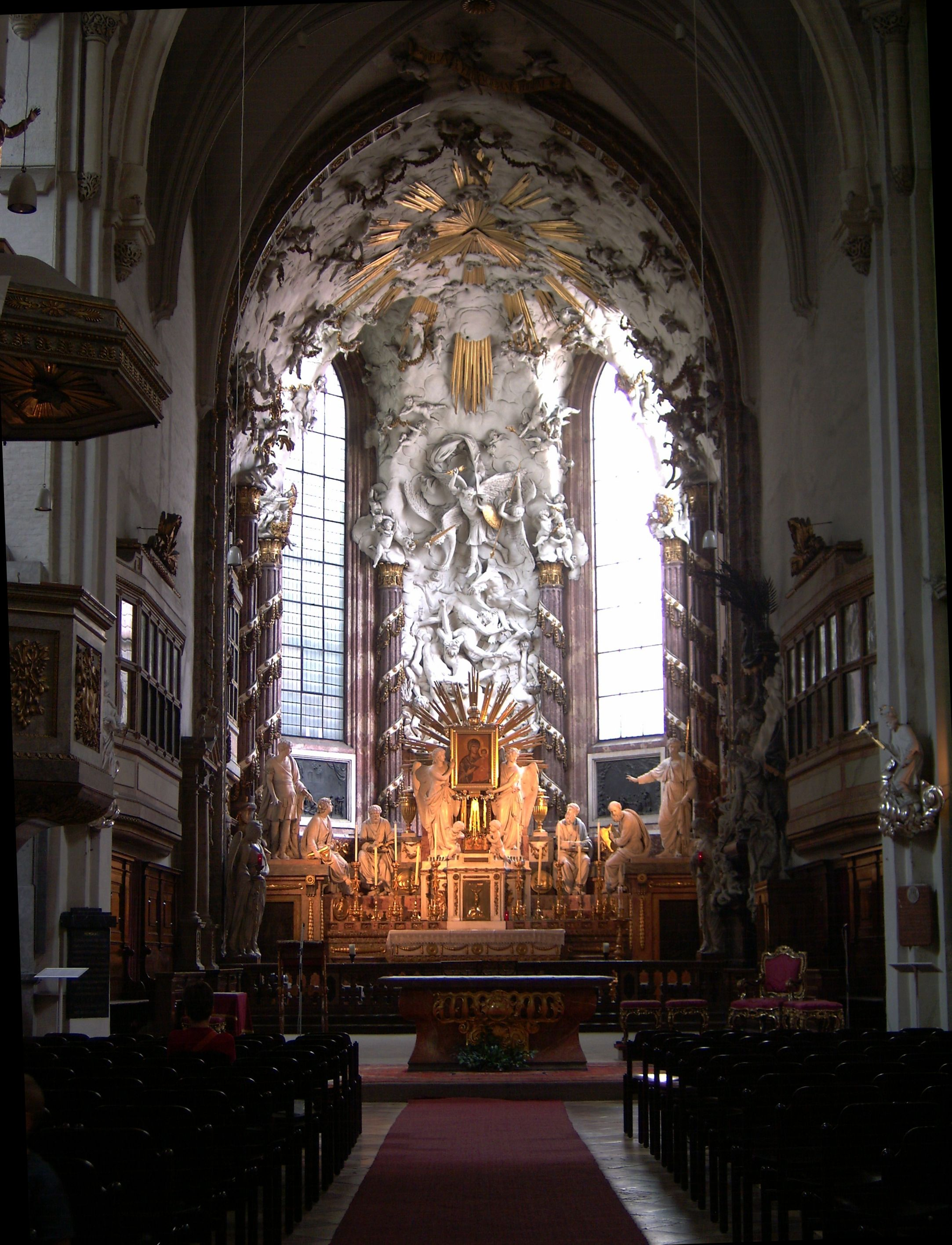 High-altar of Saint-Michael's church (Vienna)